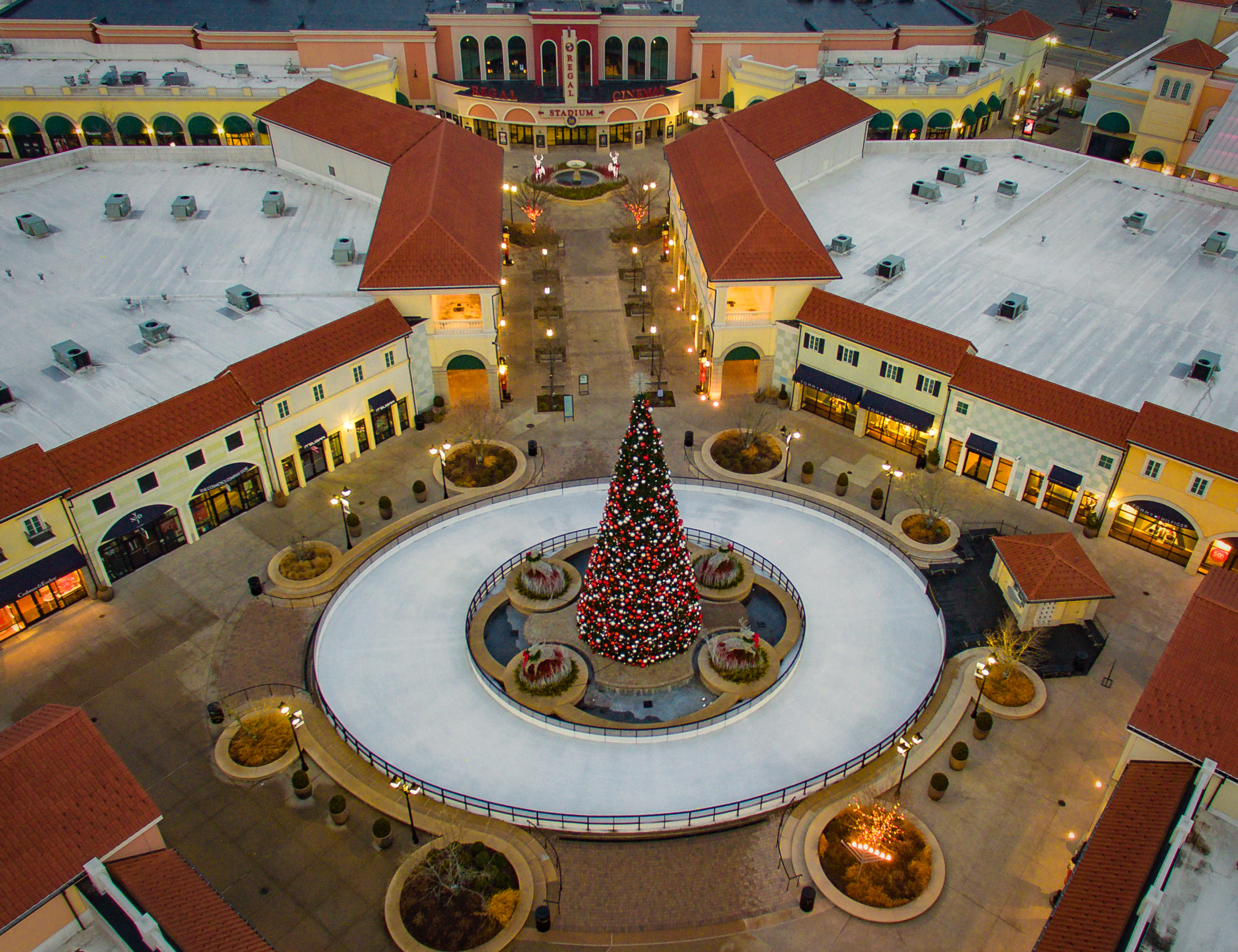 Taken during the holidays shows decorations and the ice skating rink at Tanger outlets in Deer Park, NY.